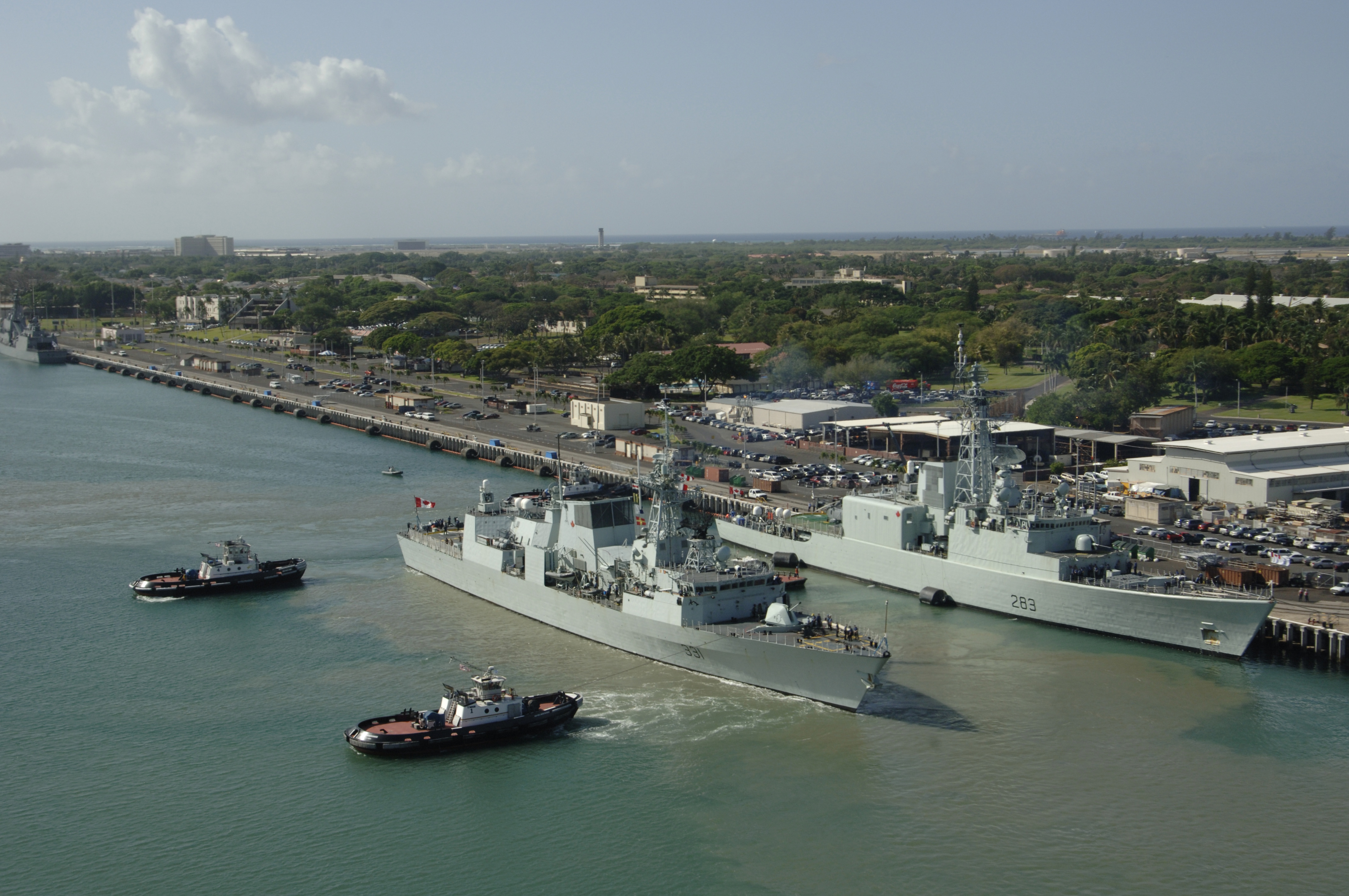 Tugboats assist the Royal Canadian Navy frigate HMCS Vancouver (FFH 331) in departing from Pearl Harbor to participate in exercise Rim of the Pacific (RIMPAC) 2006. The destroyer HMCS Algonquin (DDH 283) is visible on the right. Eight nations were participating in RIMPAC, the world's largest biennial maritime exercise. Conducted in the waters off Hawaii, RIMPAC brought together military forces from Australia, Canada, Chile, Peru, Japan, the Republic of Korea, the United Kingdom and the United States.